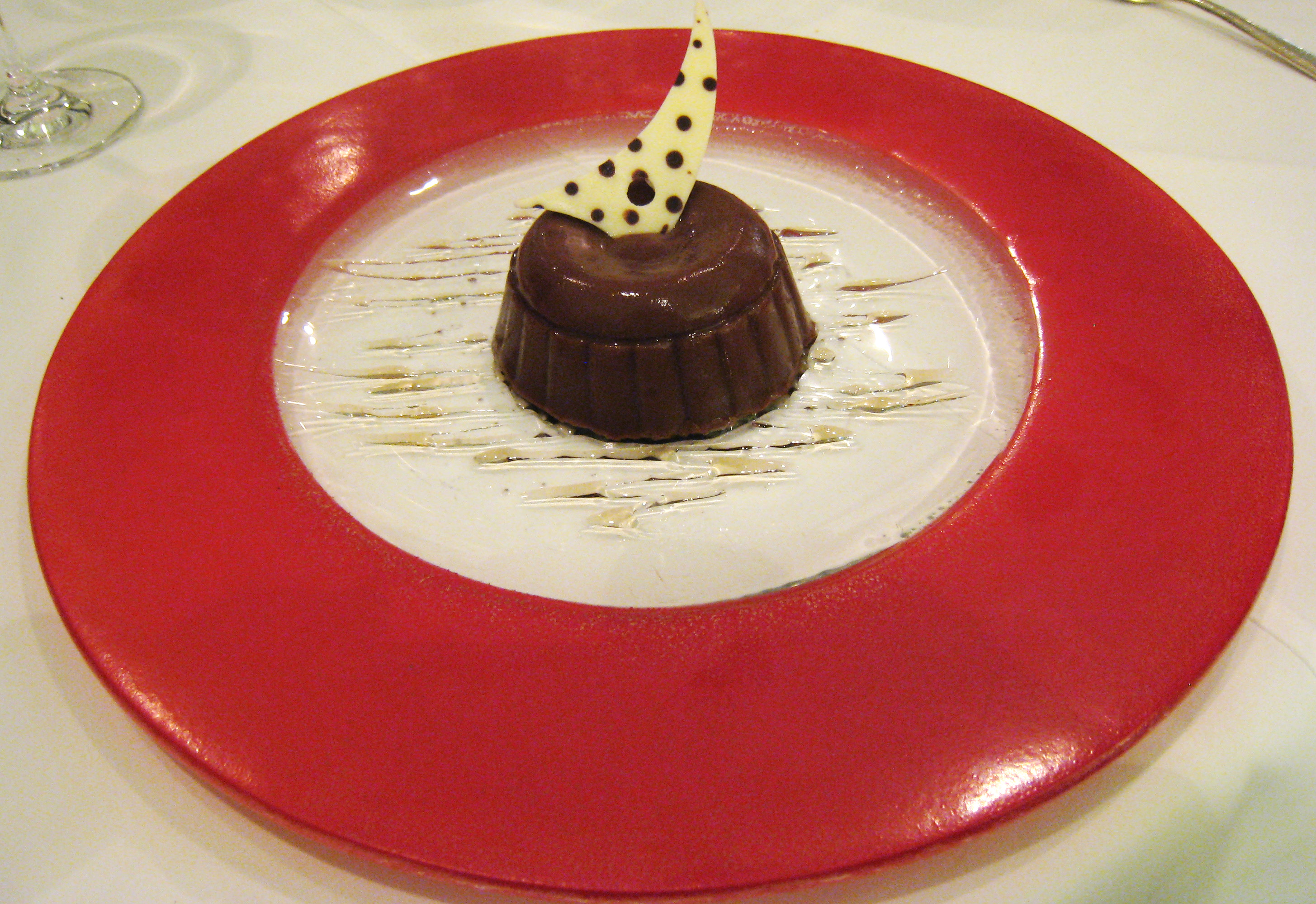 Small individual chocolate pudding